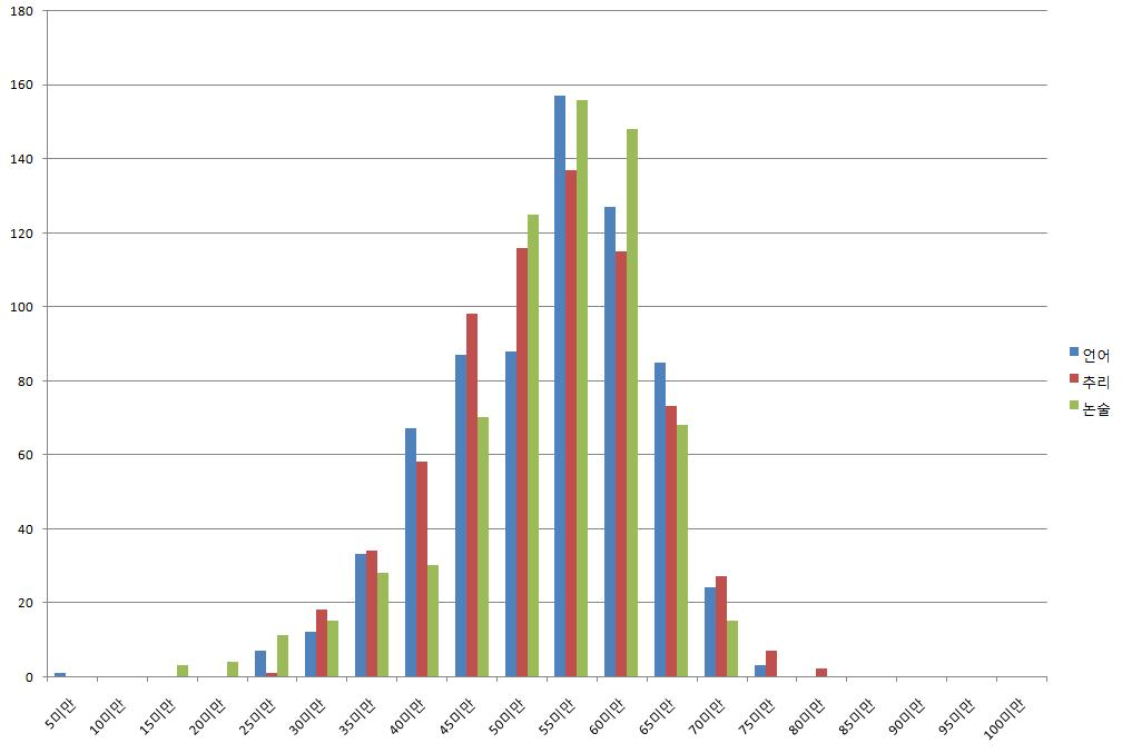 Excel graph showing the distribution of the LEET scores